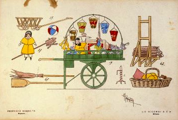 Description: Prop designs for Act II of La bohème for the world premiere performance, Teatro Regio di Torino, 1 February 1893. Artist: Adolf Hohenstein (1854-1928) Provenance: Museo Teatrale alla Scala.